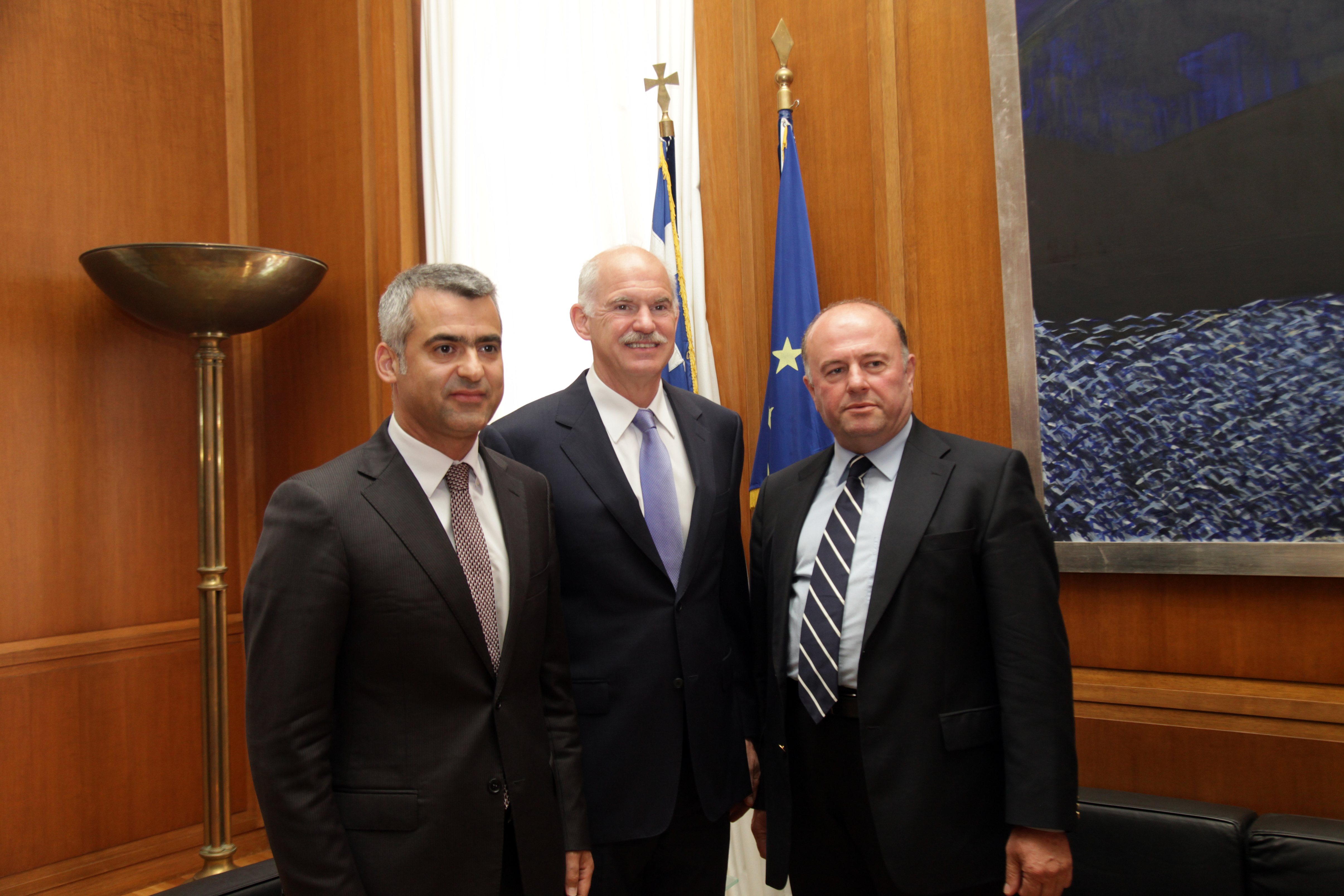 Greek prime minister George Papandreou meets PBDNJ leader Vangjel Dule (de) and Omonoia leader Vasil Bollano.